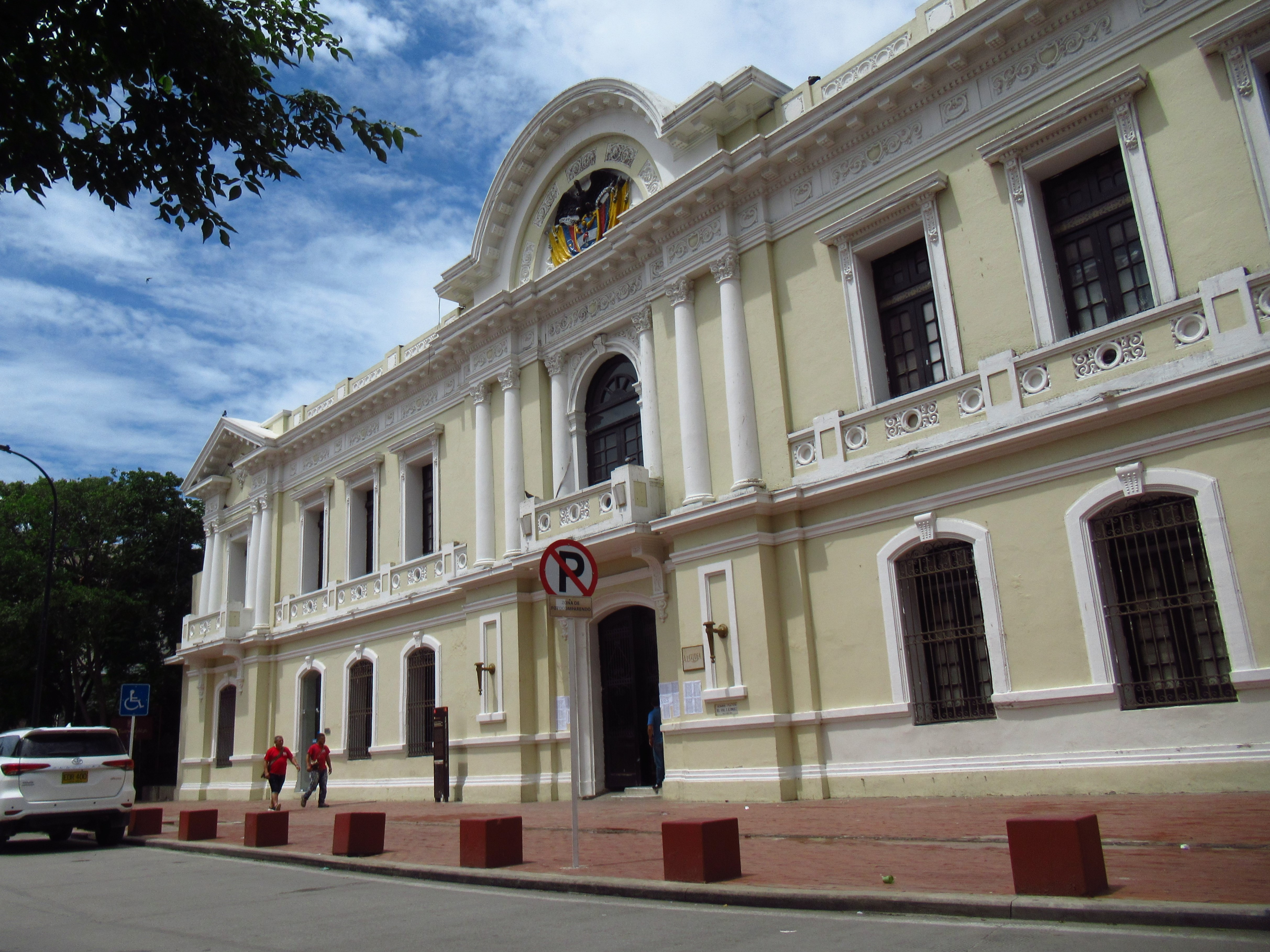 Santa Marta